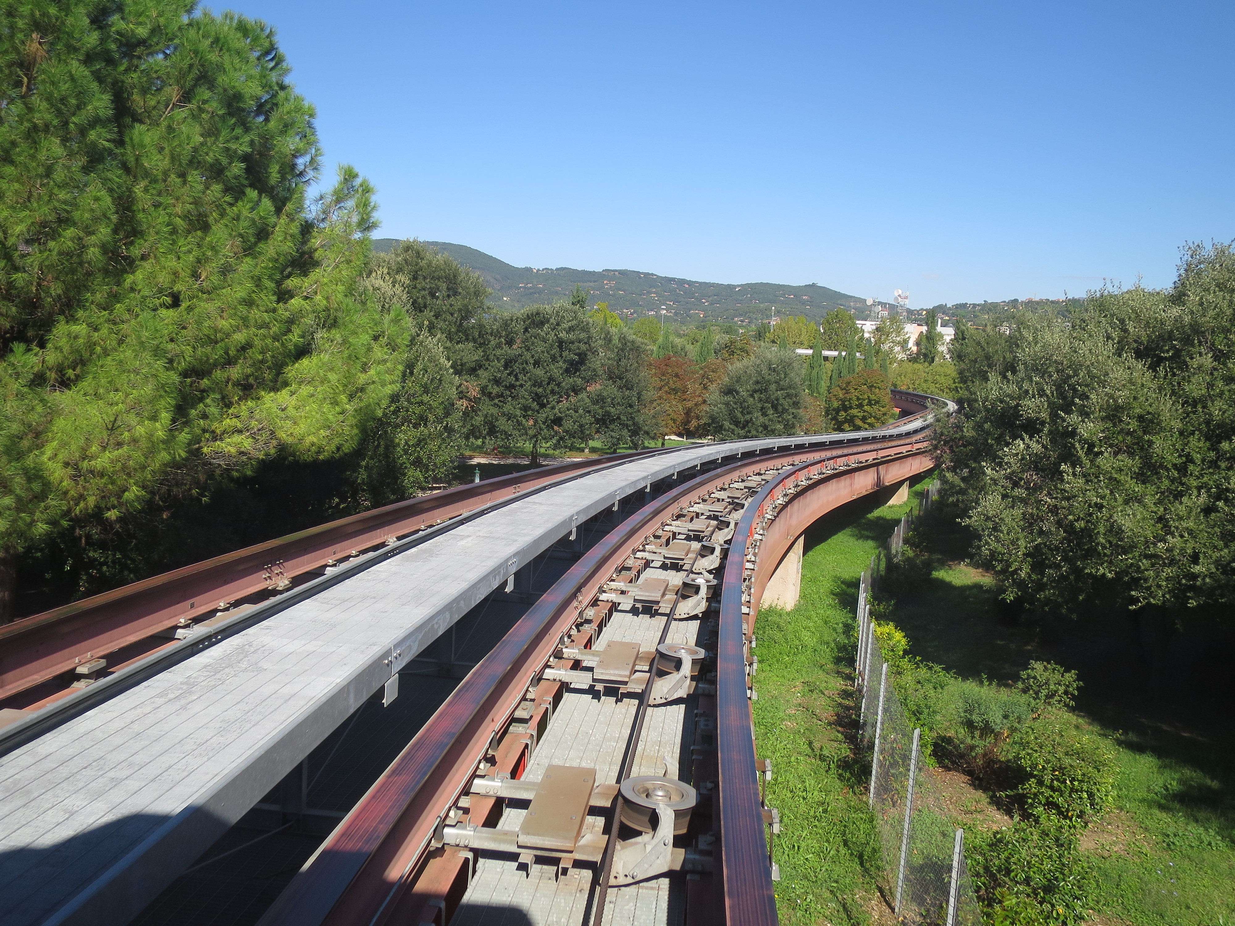 Line, Transport wire